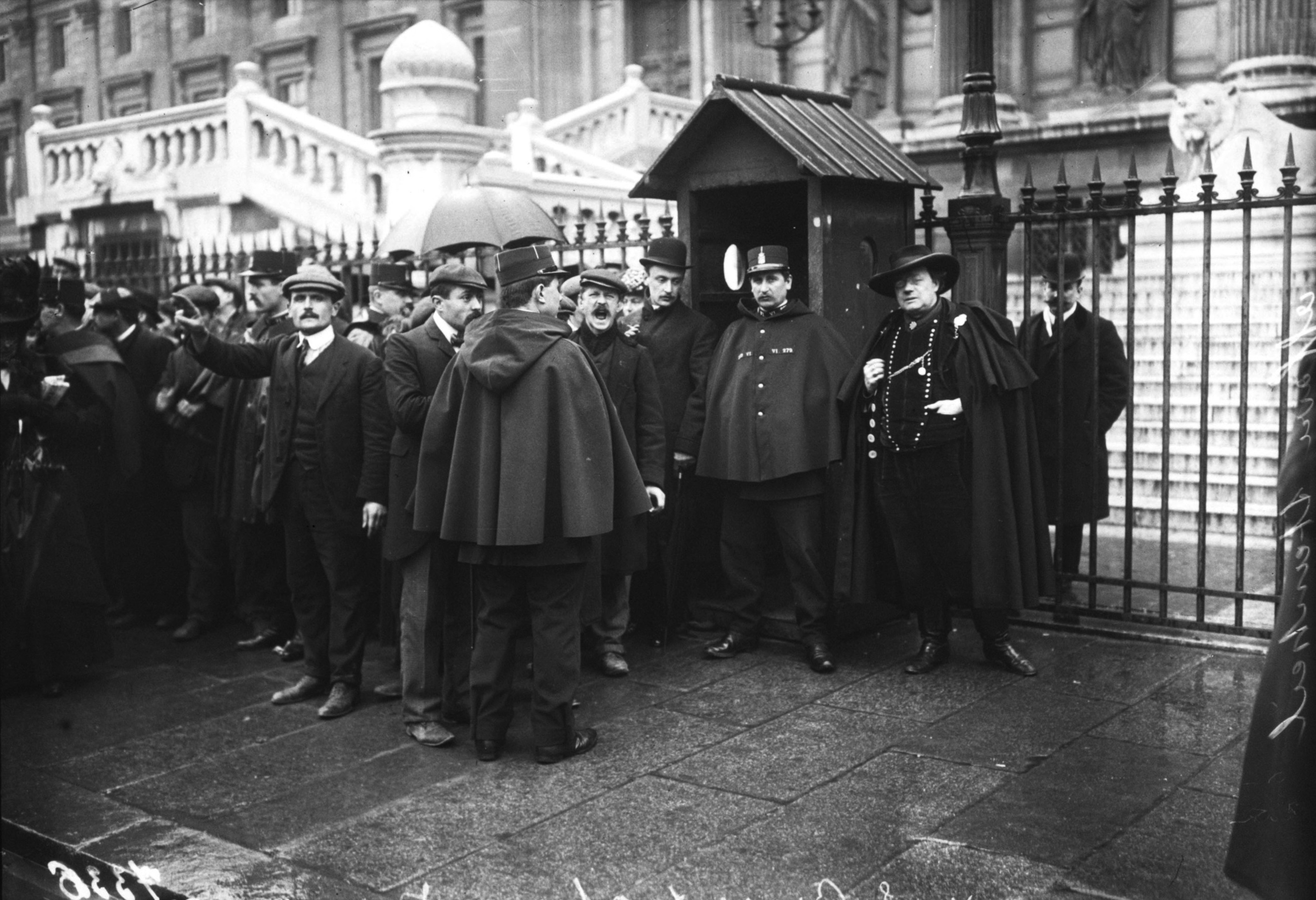 A crowd in front of the Palais de Justice in Paris during the trial of Marguerite Steinheil on 1 November 1909.